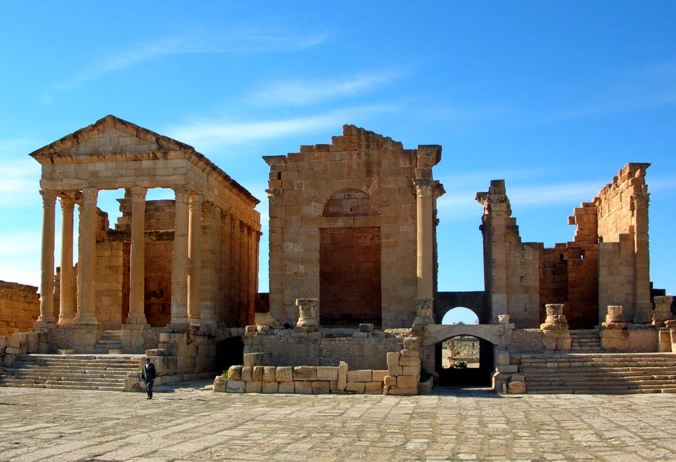 Capitoline temples of Sbeitla: Minerva (left), Jupiter (center), Juno (right), Tunisia